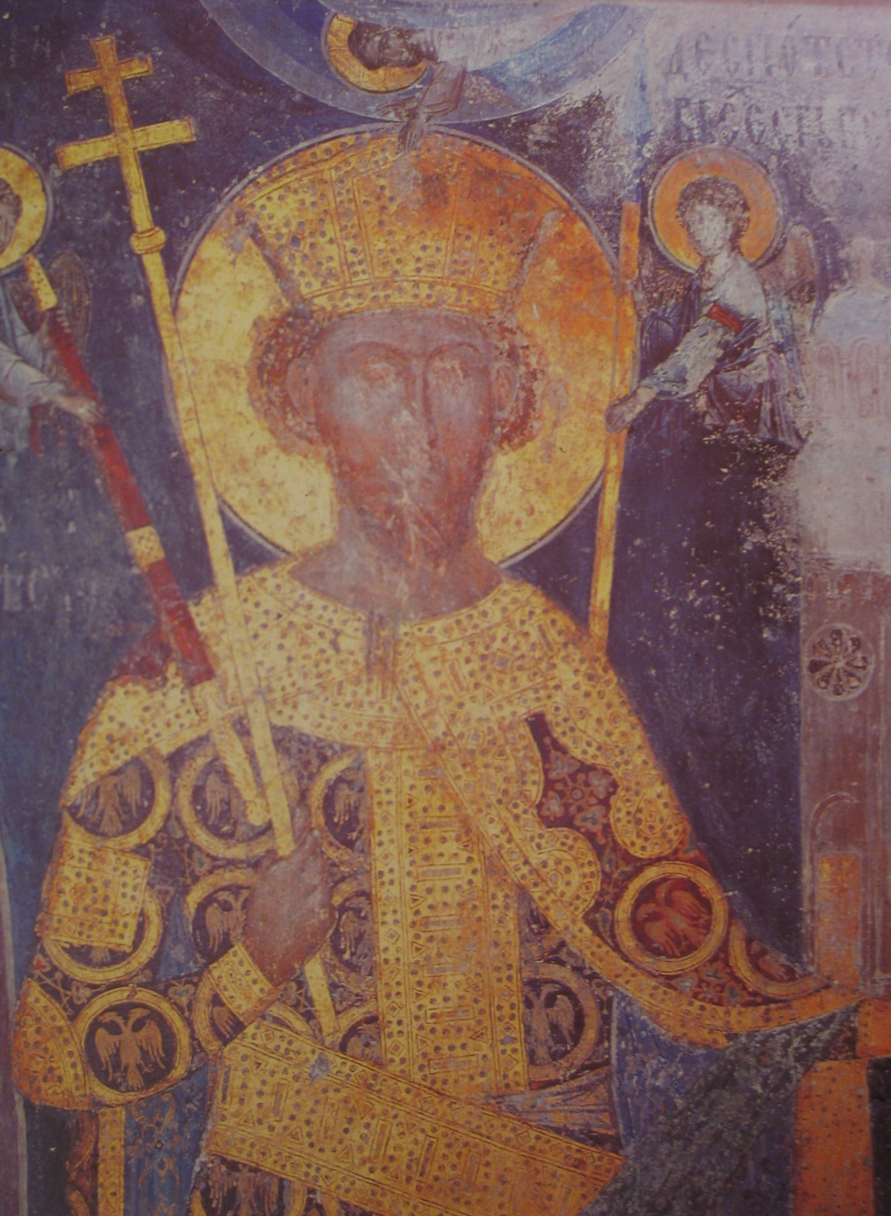 Fresco of Stefan Lazarević in Manasija monastery, near Despotovac, Serbia.